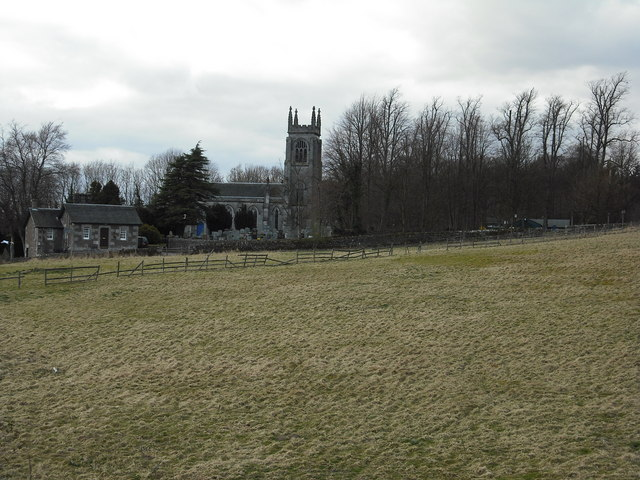 Lecropt Kirk Situated just east of the M9.